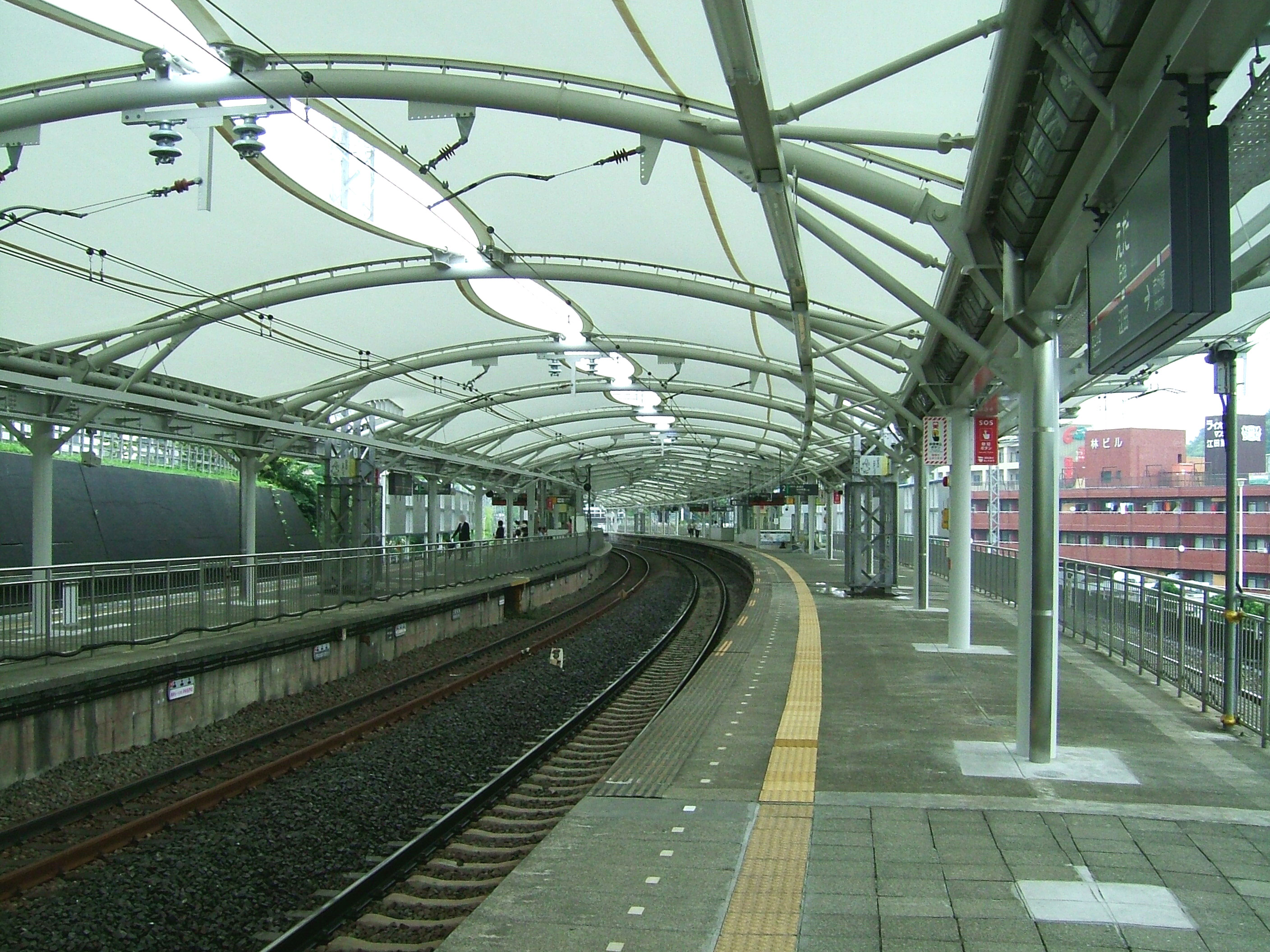 Eda Station platform (Tōkyū Den-en-toshi Line)